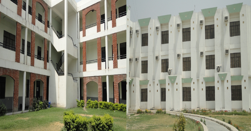 Academic Block